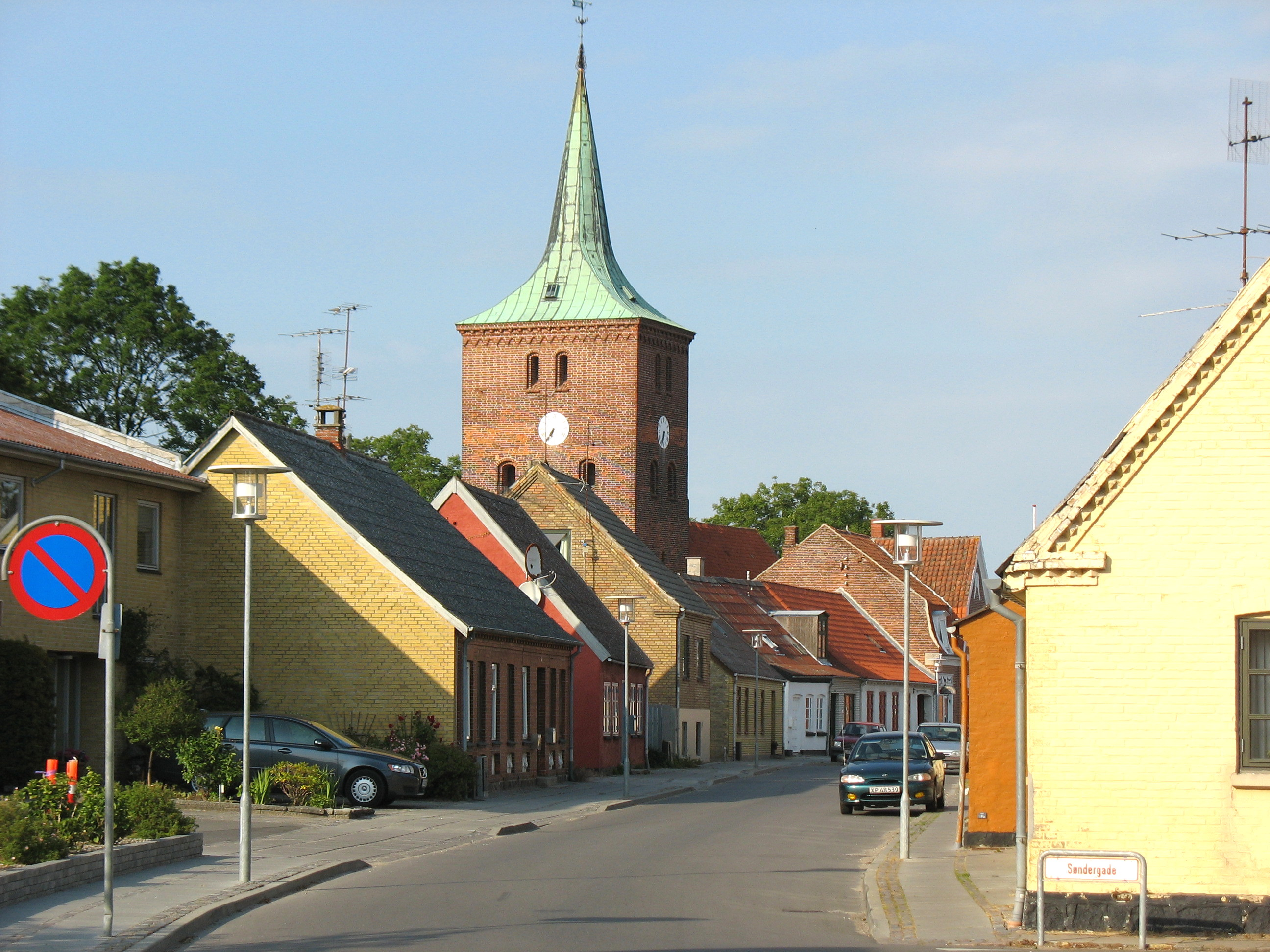 The small town "Rødby" with the church "Rødby Kirke" in the background. The town is located on the island Lolland in east Denmark.